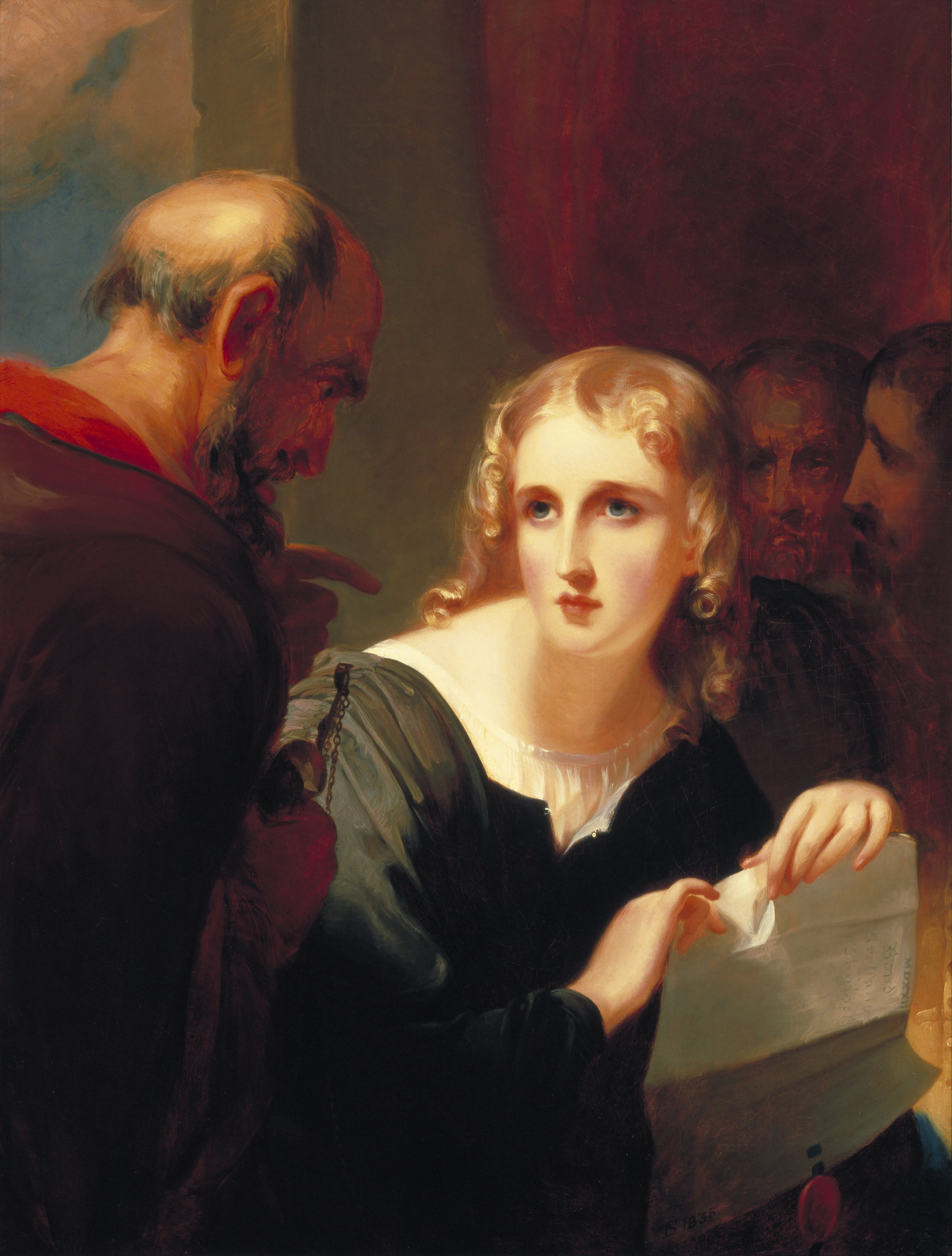 From Act IV, Scene 1 of William Shakespeare's The Merchant of Venice